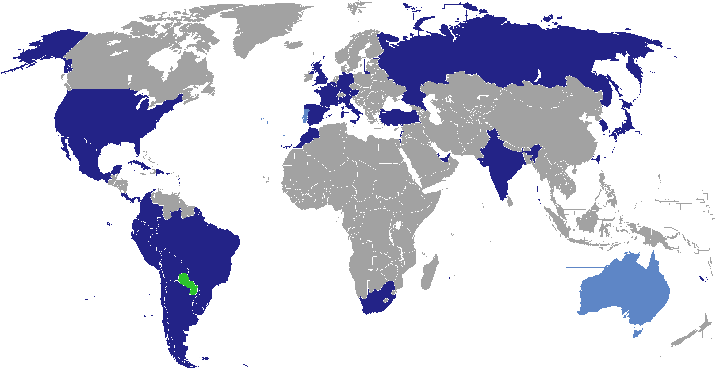 Map of countries with Paraguayan embassies Paraguay Countries with Paraguayan embassie